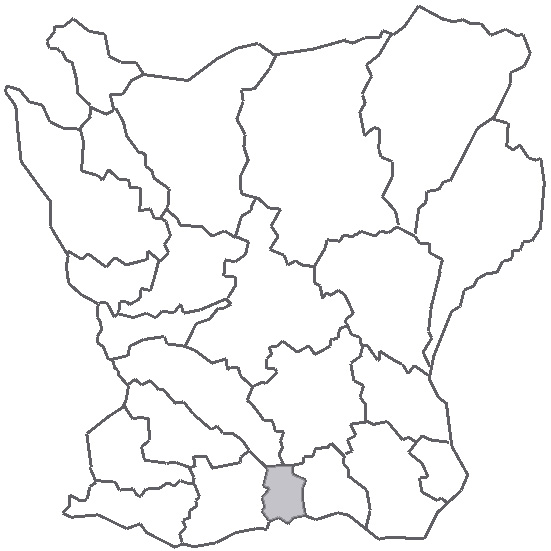 Map describing the location of Ljunit Hundred in the province of Skåne, Sweden.